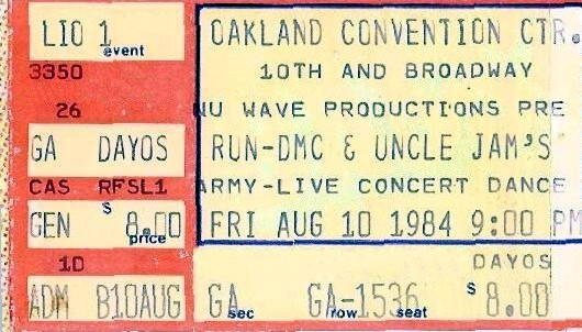 A ticket for a Run-D.M.C. and Uncle Jam's Army concert, promoted by Nu Wave Productions, at the Oakland Convention Center, Oakland, California on August 10, 1984.